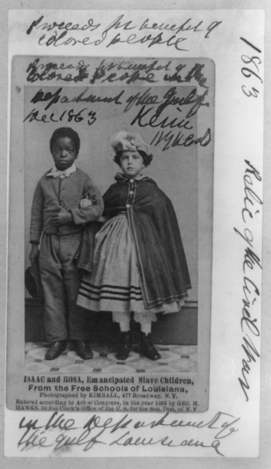 Isaac and Rosa, emancipated slave children from the free schools of Louisiana